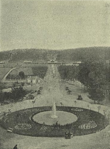 Plaza and boulevard between the Vidago spa and the train station on the Corgo Railway, in Portugal. This image was published on the Occidente magazine No. 1202, of the 20th May 1912, and scanned by the Hemeroteca Municipal de Lisboa.